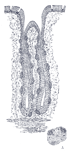 A fundus gland. A. Transverse section of gland.